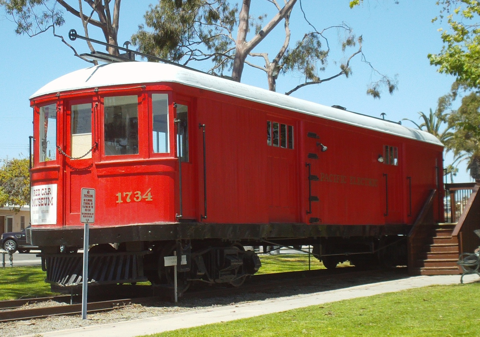 Pacific Electric Railway Car #1734, turned into the Pacific Electric Museum in Seal Beach, California